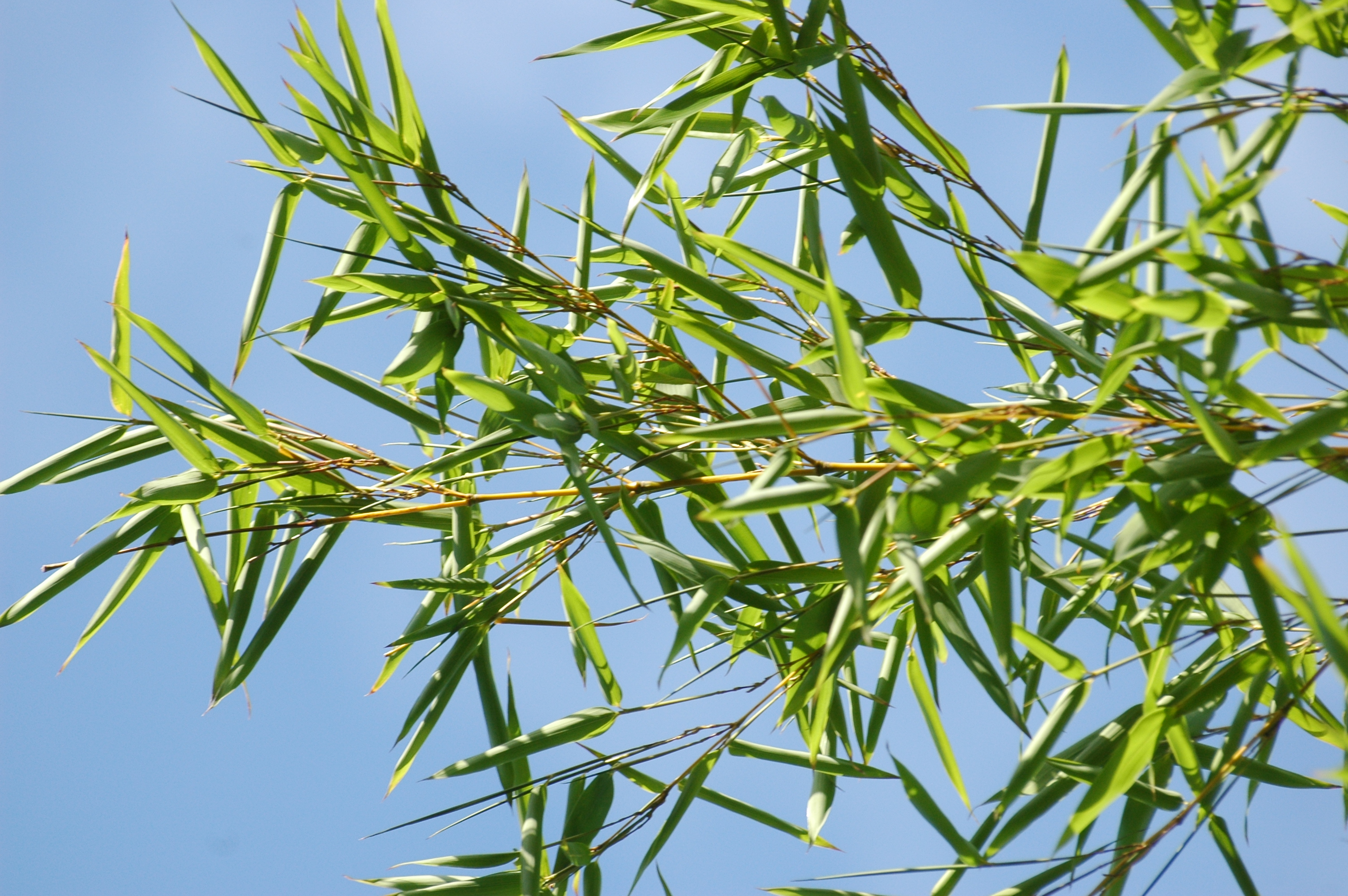 Bamboo